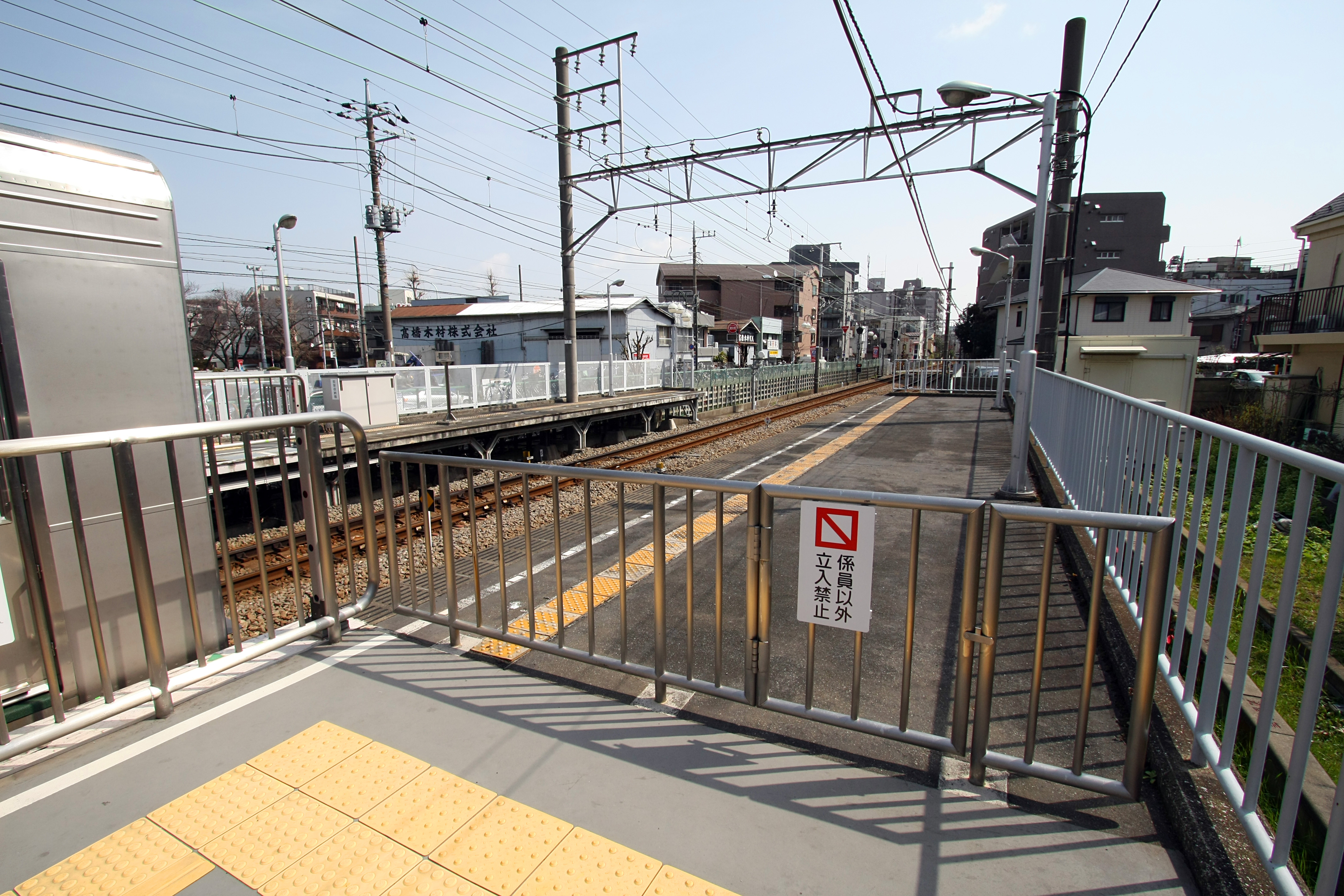 Yaguchi-no-watashi Station Old Platform